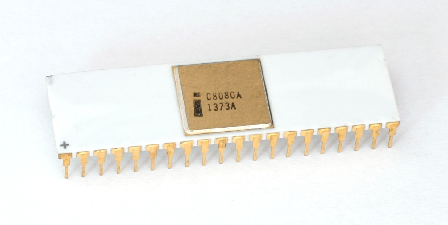 CPU Intel C8080